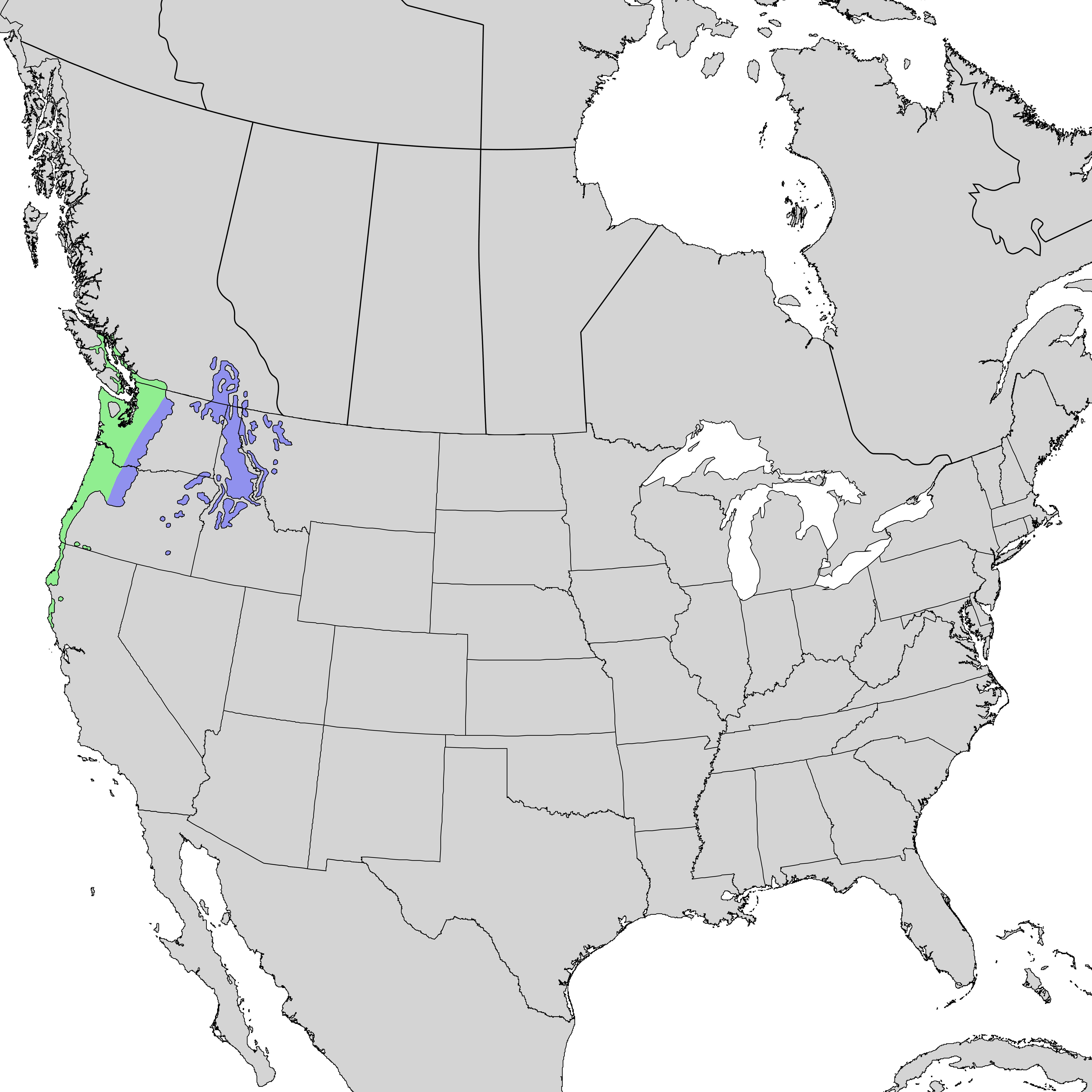 Abies grandis (Douglas ex D. Don) Lindl. - grand fir